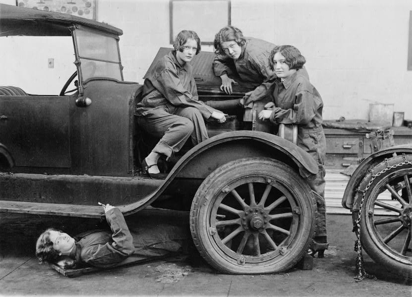 1= [High school girls learn the art of automobile mechanics. Left to right: Grace Hurd, Evelyn Harrison, and Corinna DiJiulian, with Grace Wagner (under car), at Central High, Wash. D.C.] .